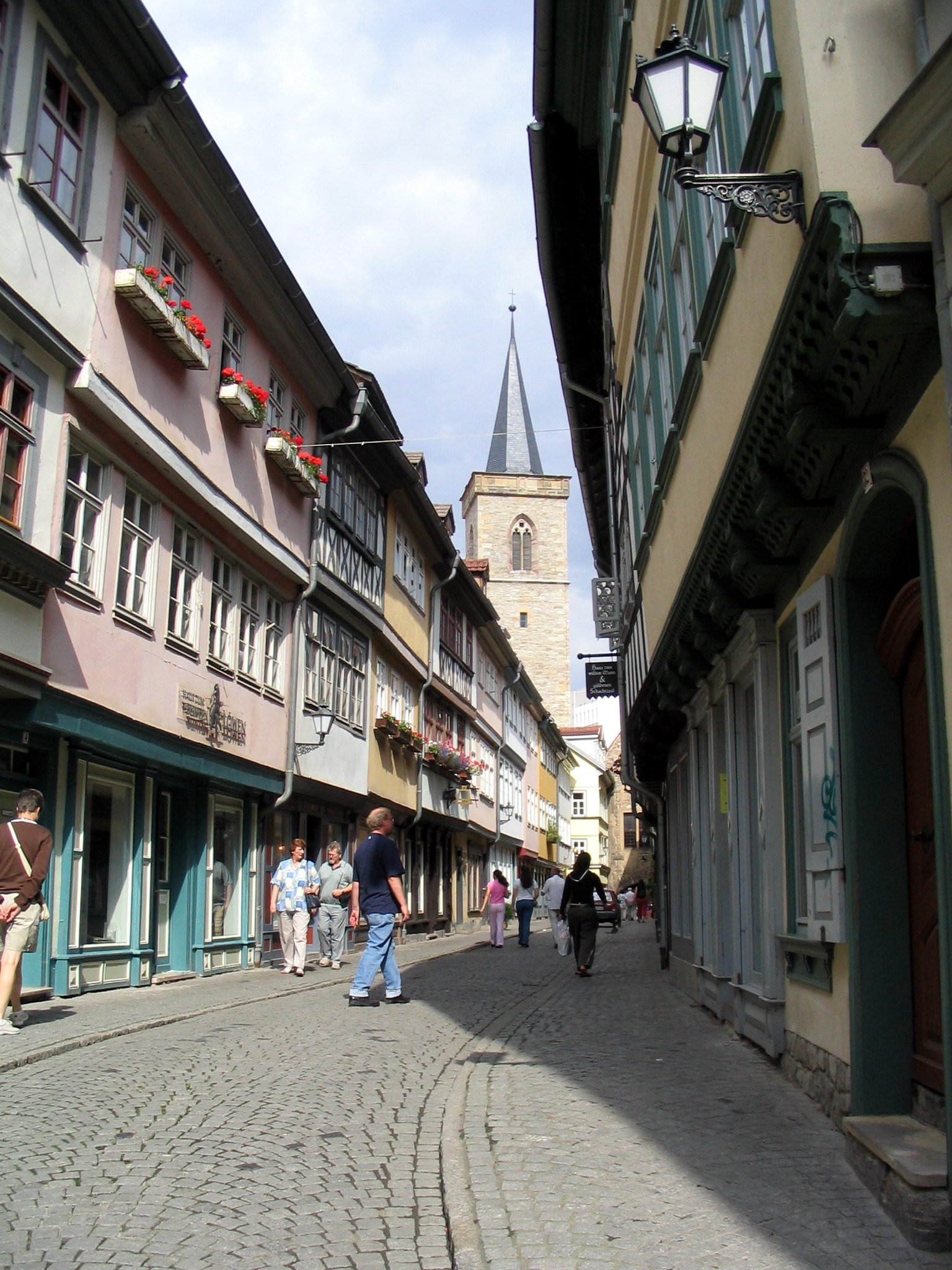 Krämerbrücke in Erfurt, the only bridge north of the alps which is completely covered with inhabited buildings.